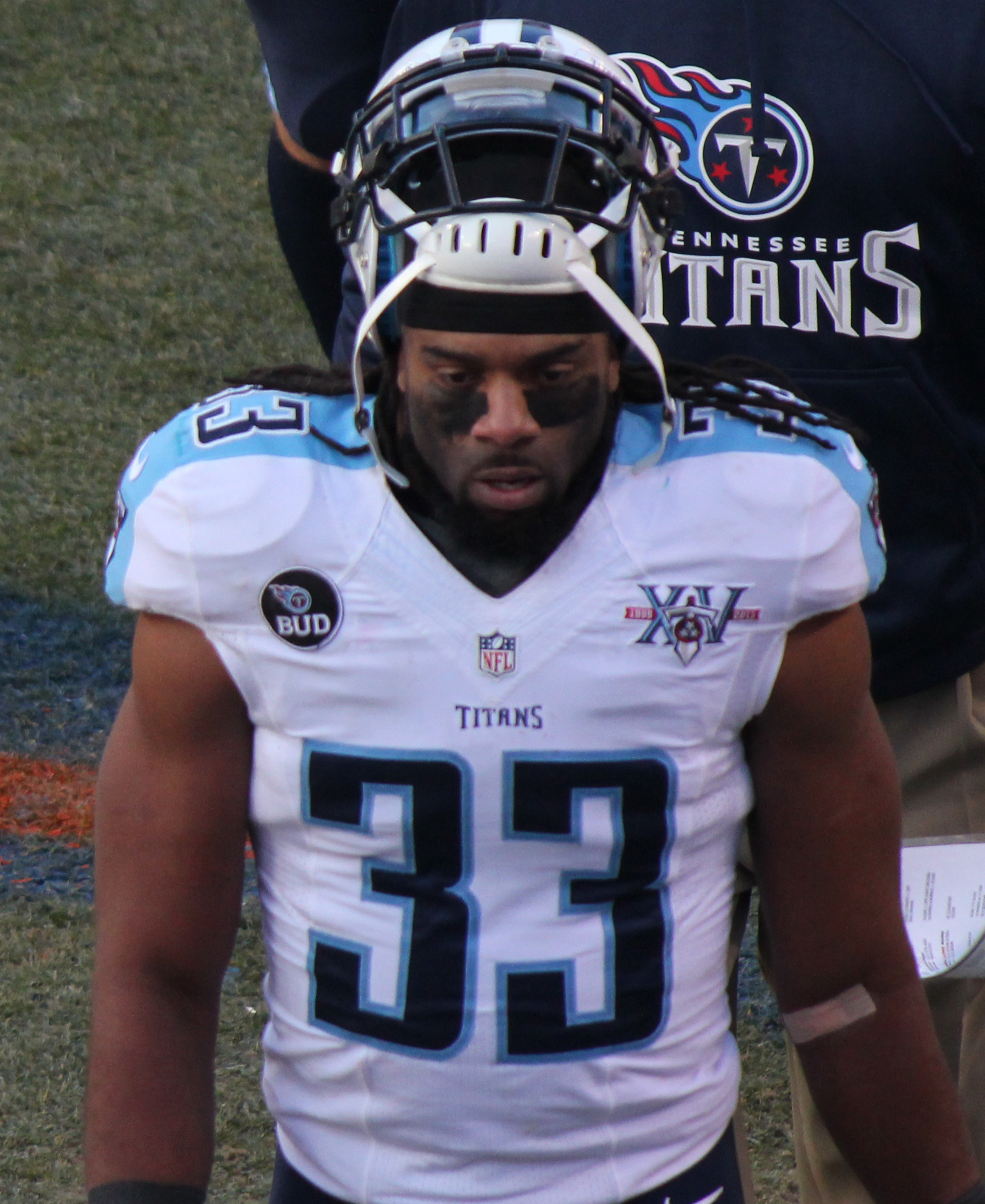 Michael Griffin, a player on the National Football League.